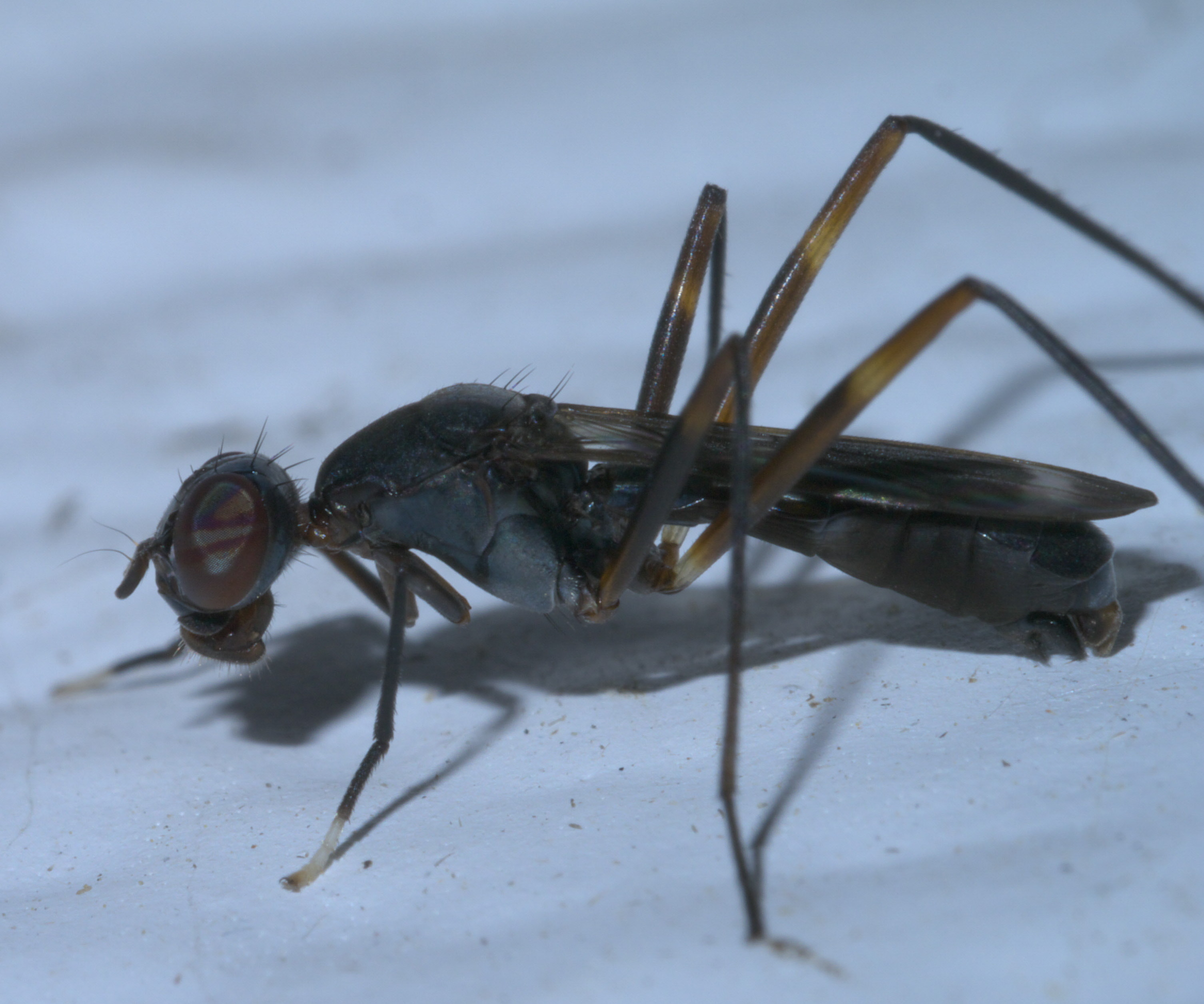 Taeniaptera trivittata, Family: Stilt-legged Flies, ID Confidence: 87